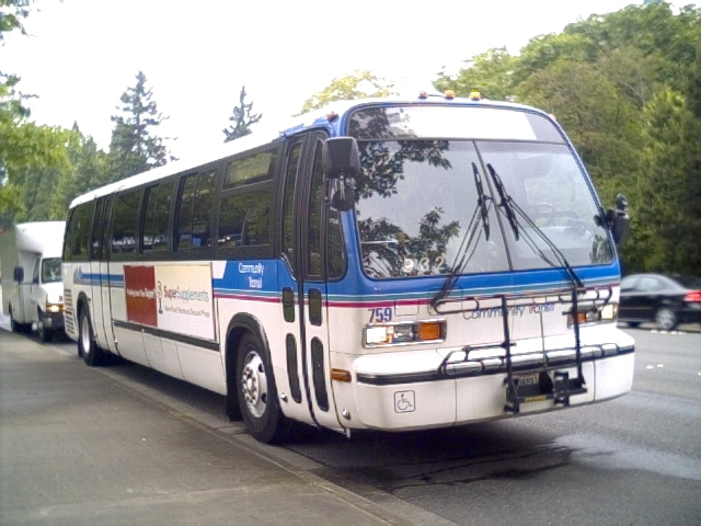 Community Transit Bus #798.